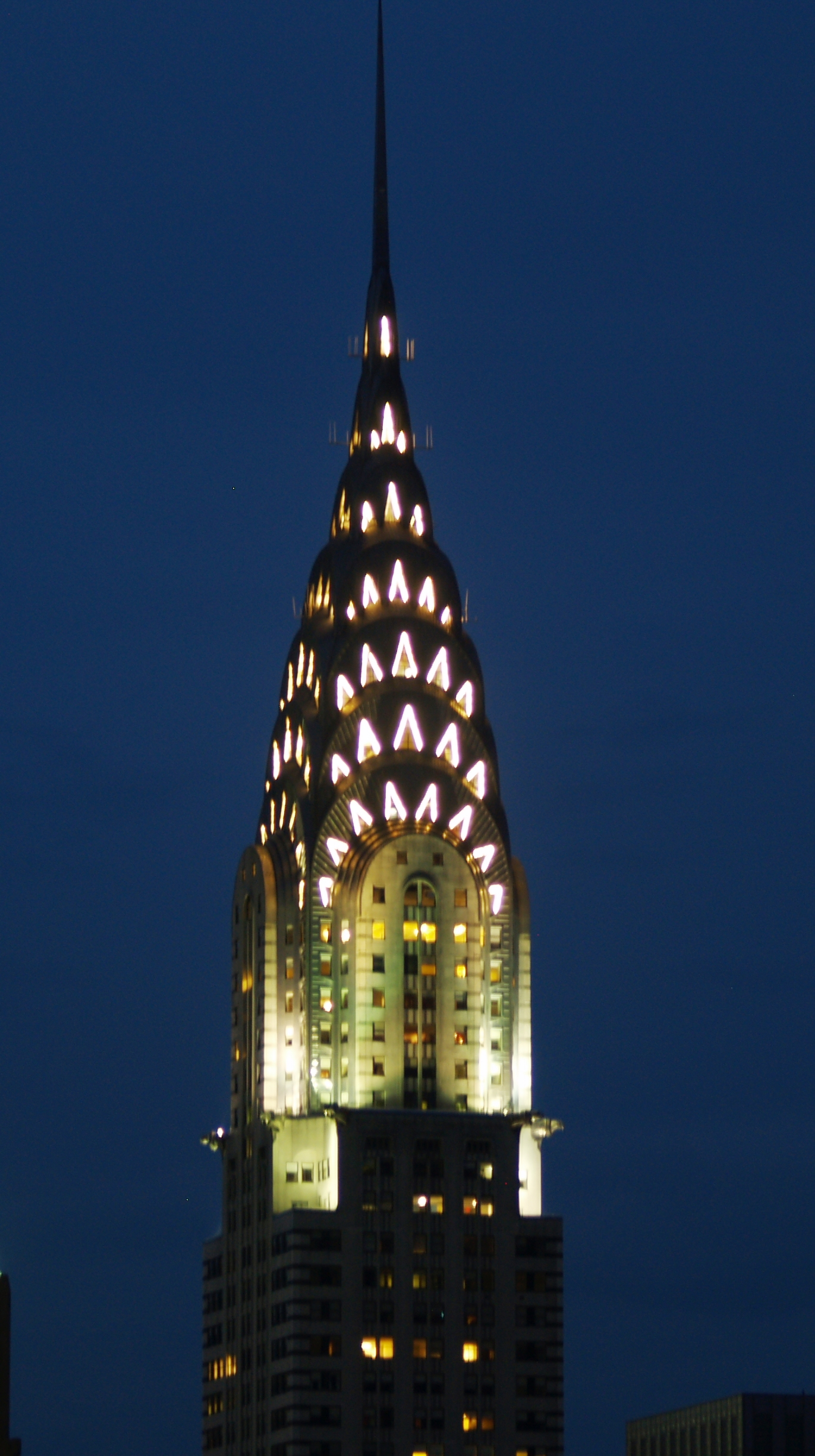 The Chrysler Building in New York City illuminated at night.